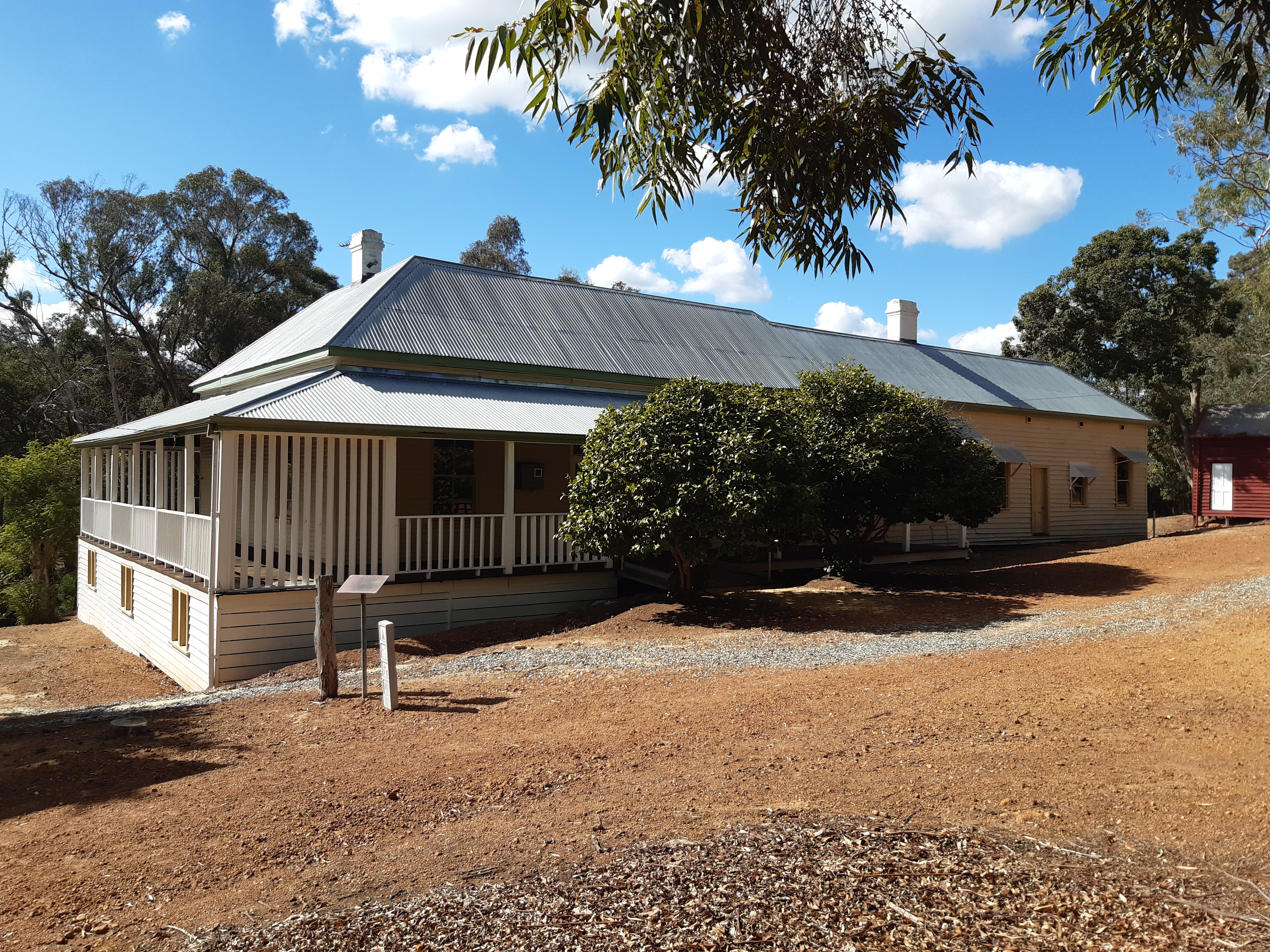 The heritage listed Mill Manager's Residence (Inherit #4615), Jarrahdale, Western Australia.